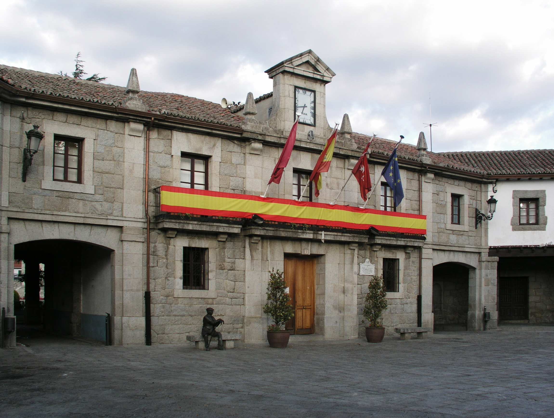 Ayuntamiento, Guadarrama, Spain.